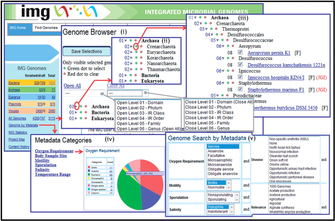 Screenshot of genome analysis tools in IMG 2.9.